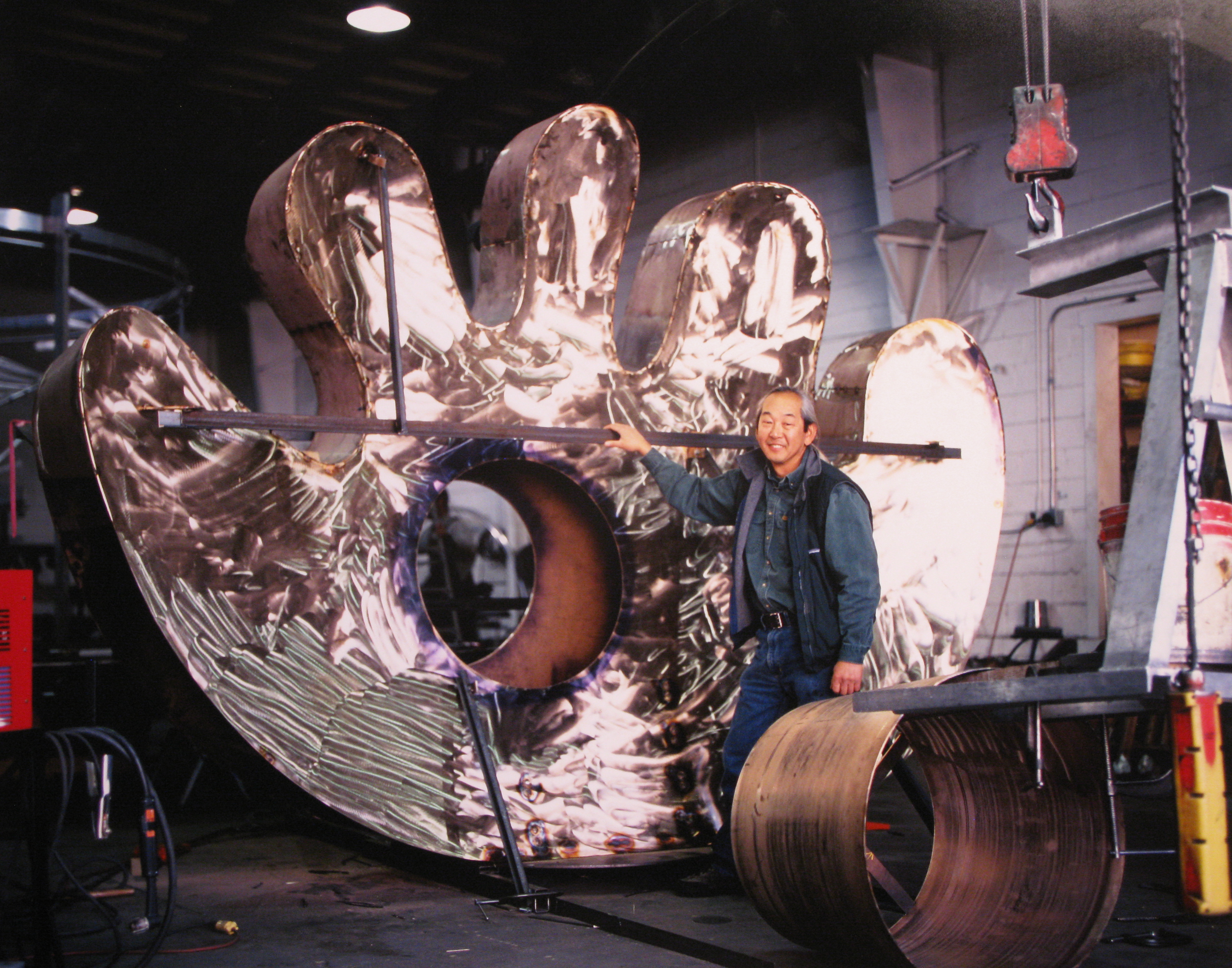 Sculptor Gerard Tsutakawa with 9 foot tall bronze "Mitt"